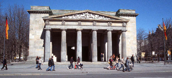 Neue Wache (new guard) in Berlin